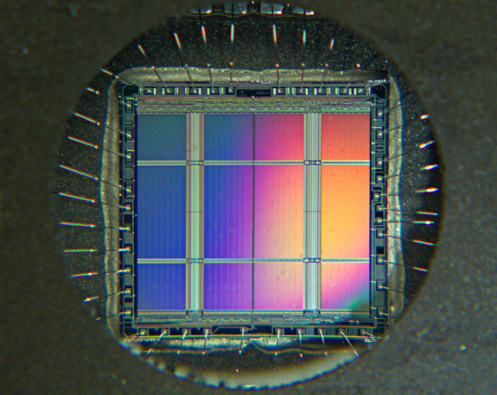 Close up detail of an EPROM chip. Picture was taken using two +4 dioptre close up lenses. Details: ISO: 100 Modifications: Crop, Focus Magic (deconvolution). Photographer: Bill Bertram